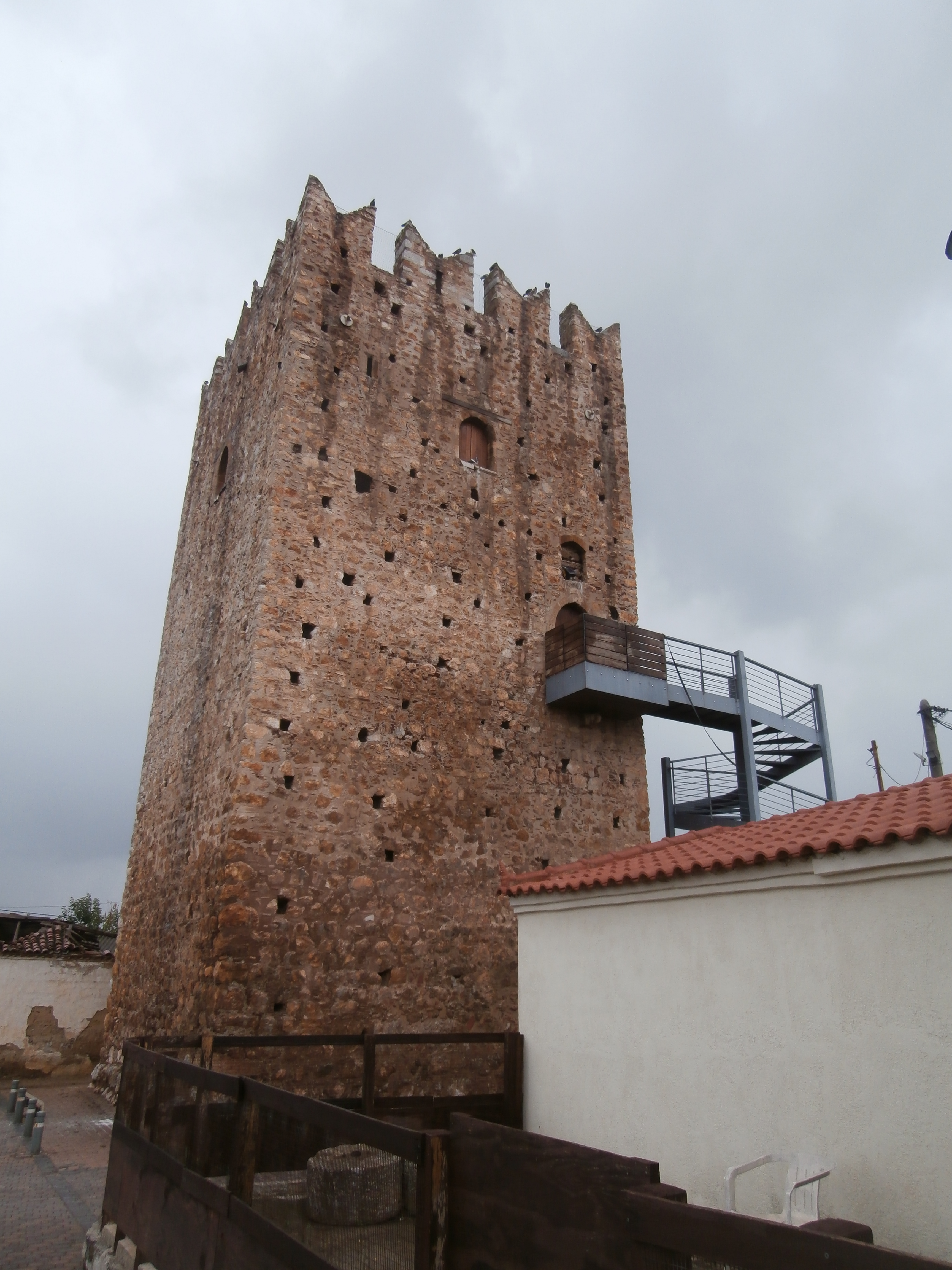 Vasiliko tower, Euboea